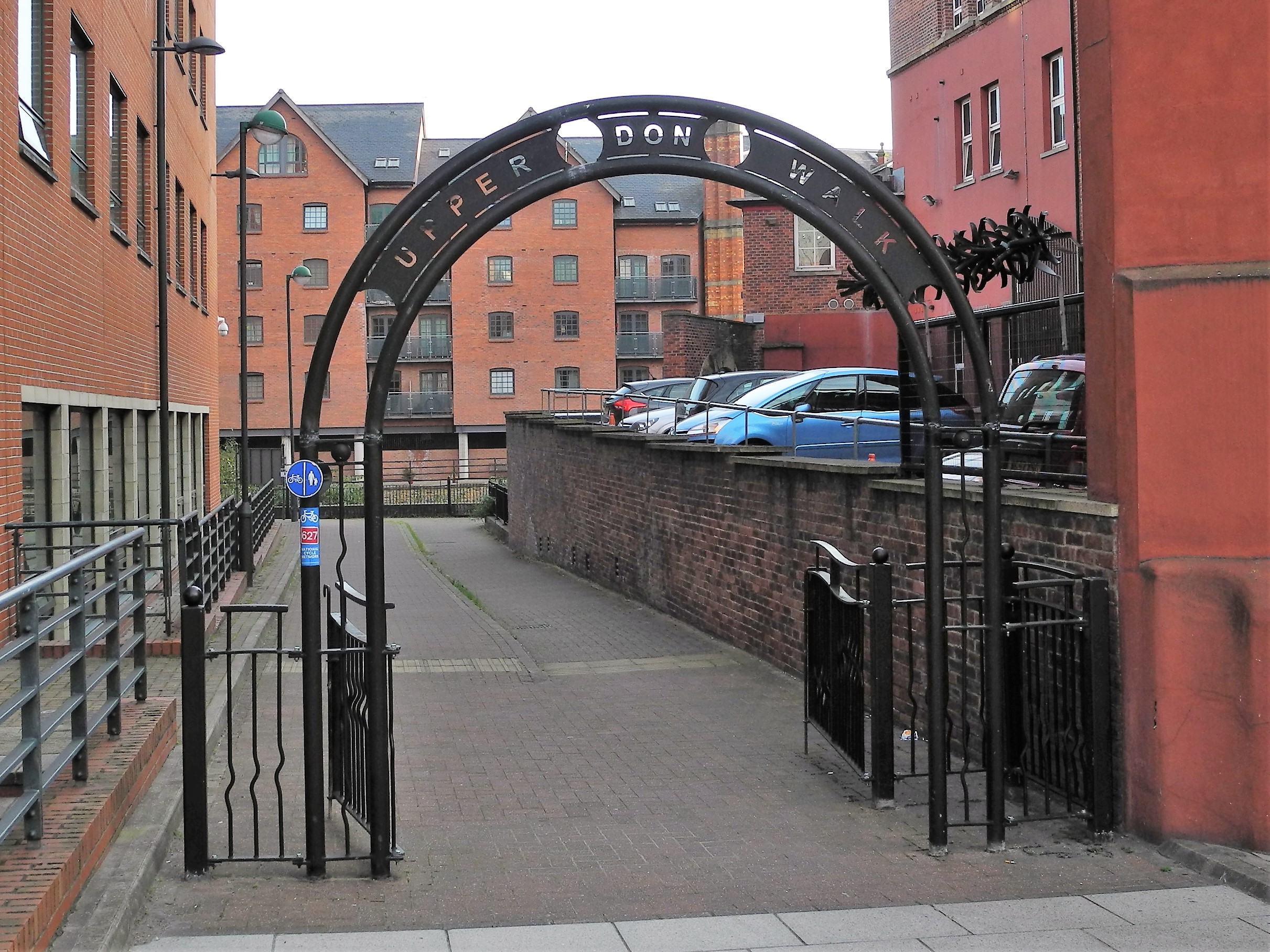 The start of the Upper Don Walk in central Sheffield, England